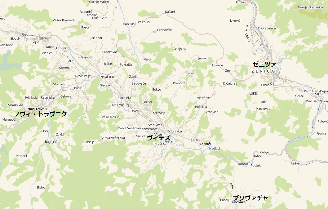 Map of the Central part of Lašva Valley This map may be incomplete, and may contain errors. Don't rely solely on it for navigation.